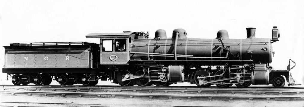 Natal Government Railways 2-6-6-0 Mallet no. 336